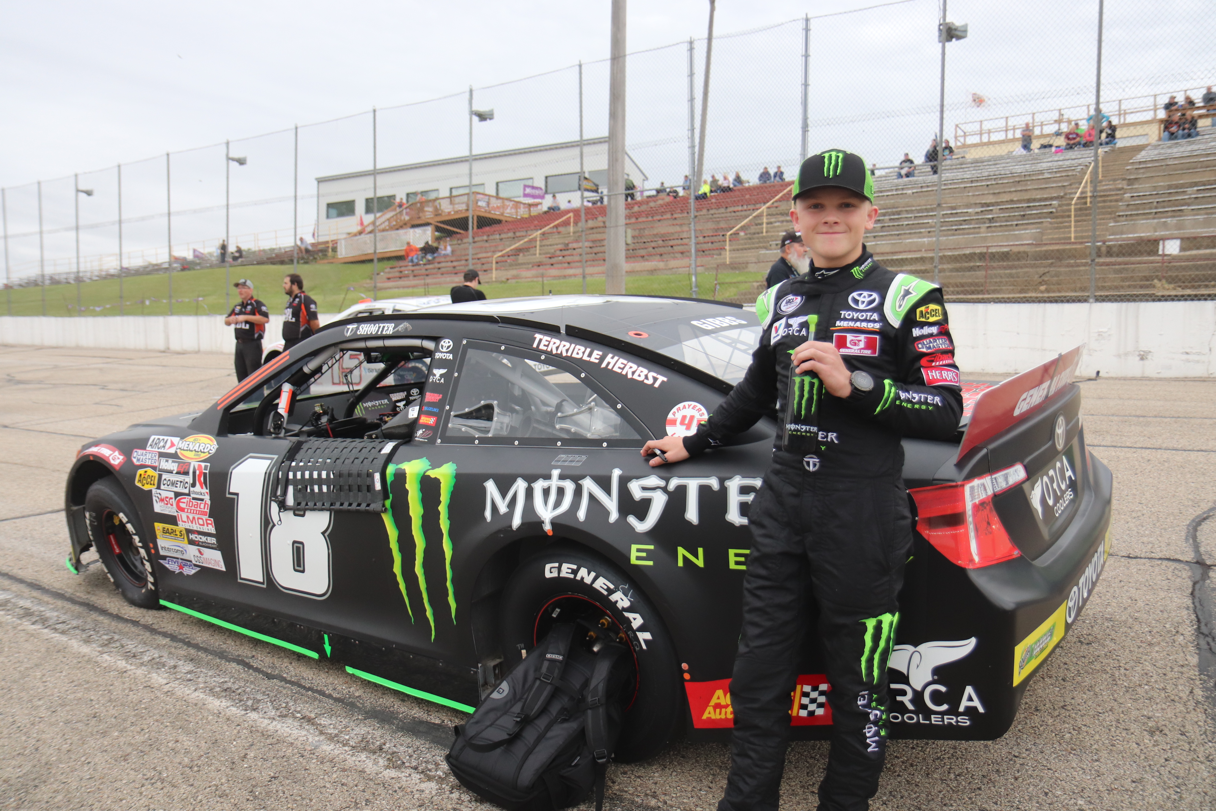 ARCA / NASCAR driver Ty Gibbs poses at Madison International Speedway.